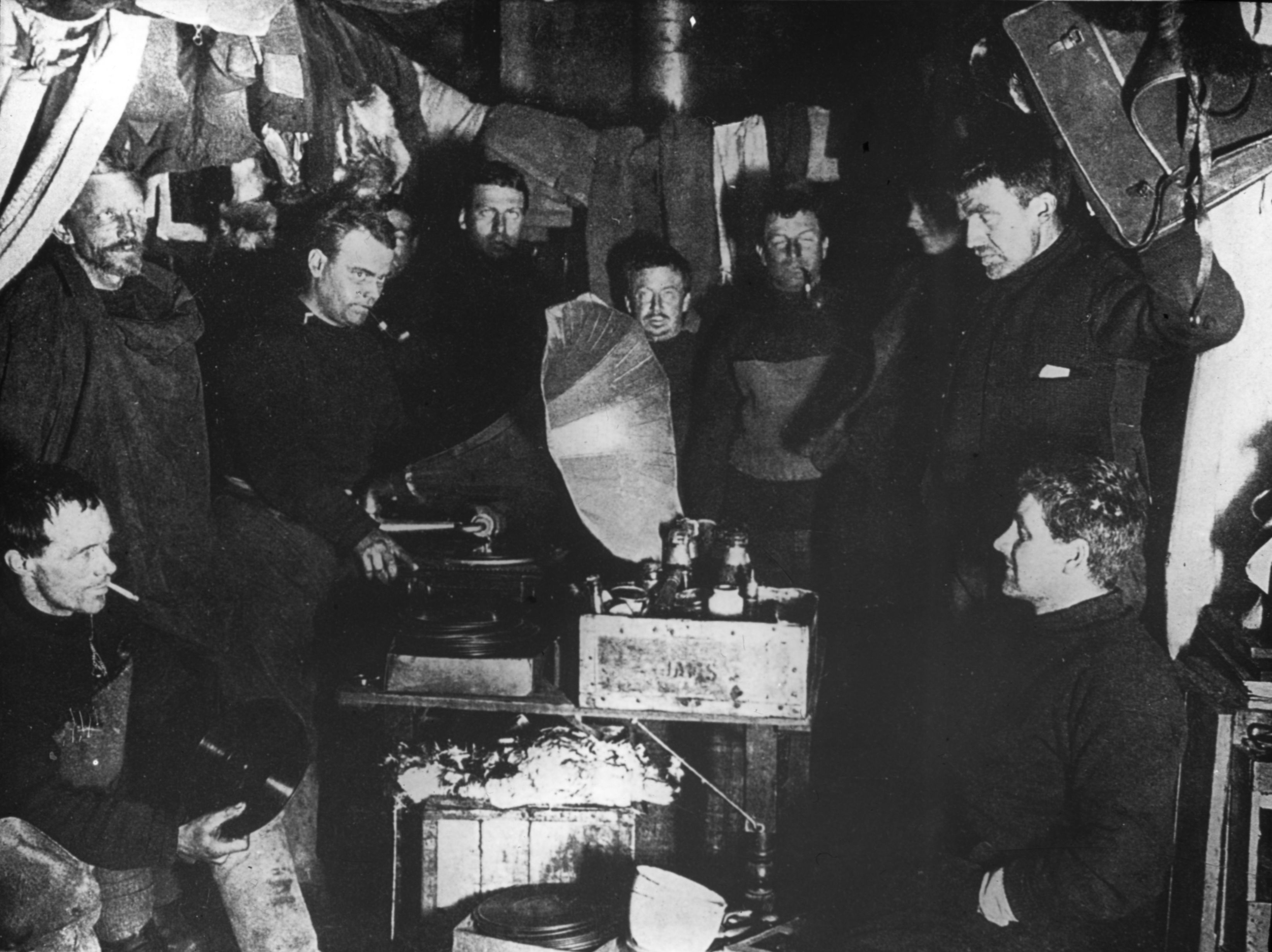 Photographs of the Nimrod Expedition (1907-09) to the Antarctic, led by Ernest Sheckleton